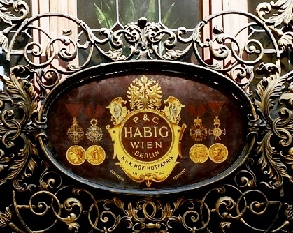 Shop sign of Habig P & C, Vienna_Berlin K & K Hof, hat factory 1862, Venice, Sotoportego Foscara, Italy, European Union